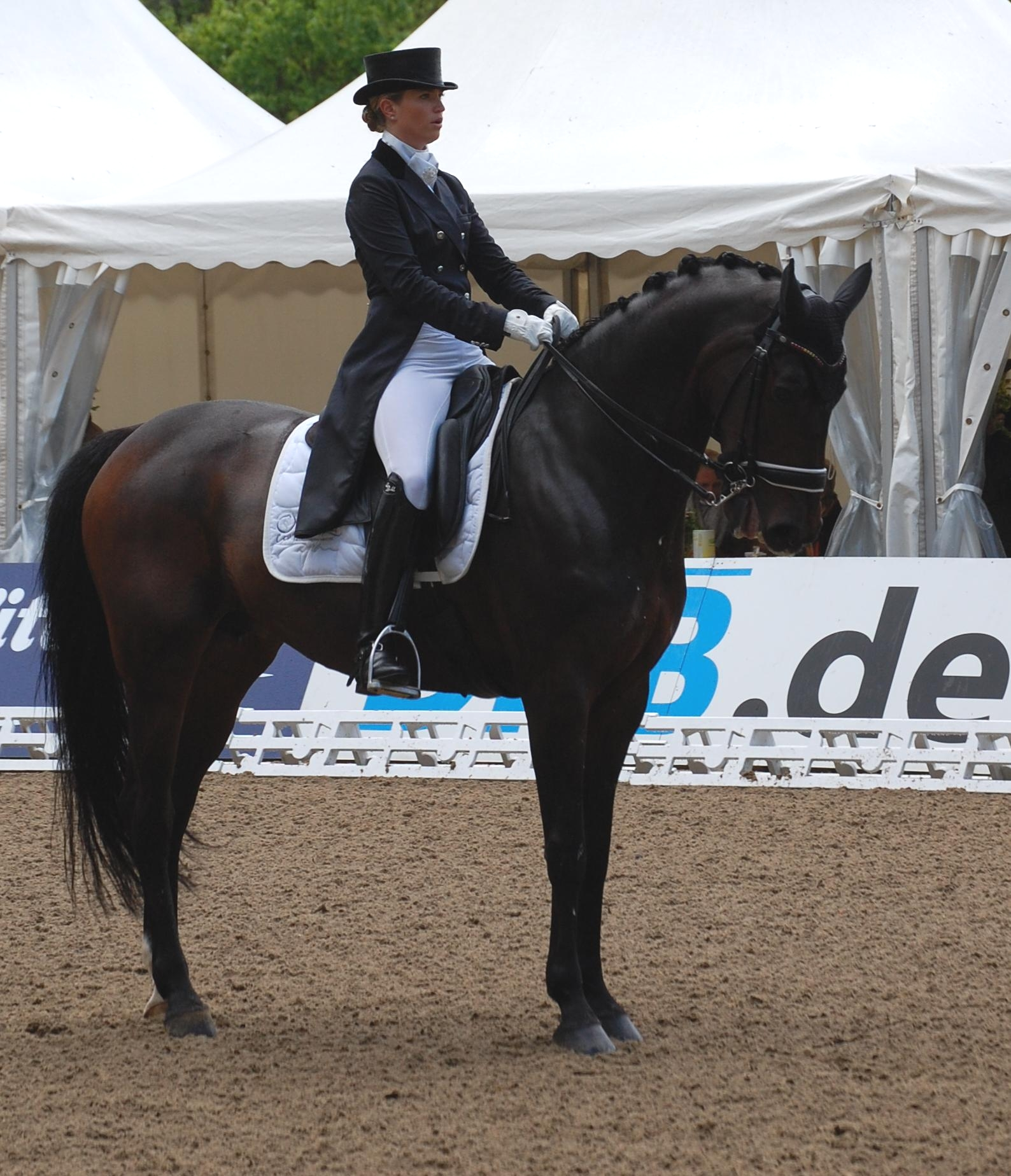 Morgan Barbançon Mestre and her horse Vitana V, 57th German dressage derby, a dressage competition with a horse change. Hamburg 2015.